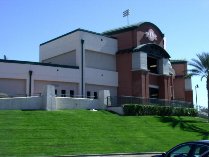 Tempe Diablo Stadium in Tempe, Arizona built in 1968 and Spring Training home to the L.A. Angels